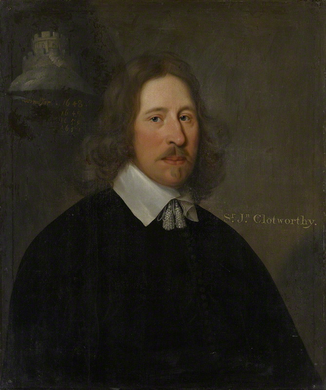 Sir John Clotworthy (from 1660 1st Viscount Massereene) (died September 1665). In the top left corner is a depiction of the Round Tower of Windsor Castle with the dates 1648, 1649, 1650, 1651, marked. He was confined here until 1651 with five other distinguished prisoners, when all were dispersed as a precautionary measure. (Source: Godwin, William, History of the Commonwealth of England, Vol.3, From the Death of Charles I. to the Protectorate, London, 1827, p.250[1]).